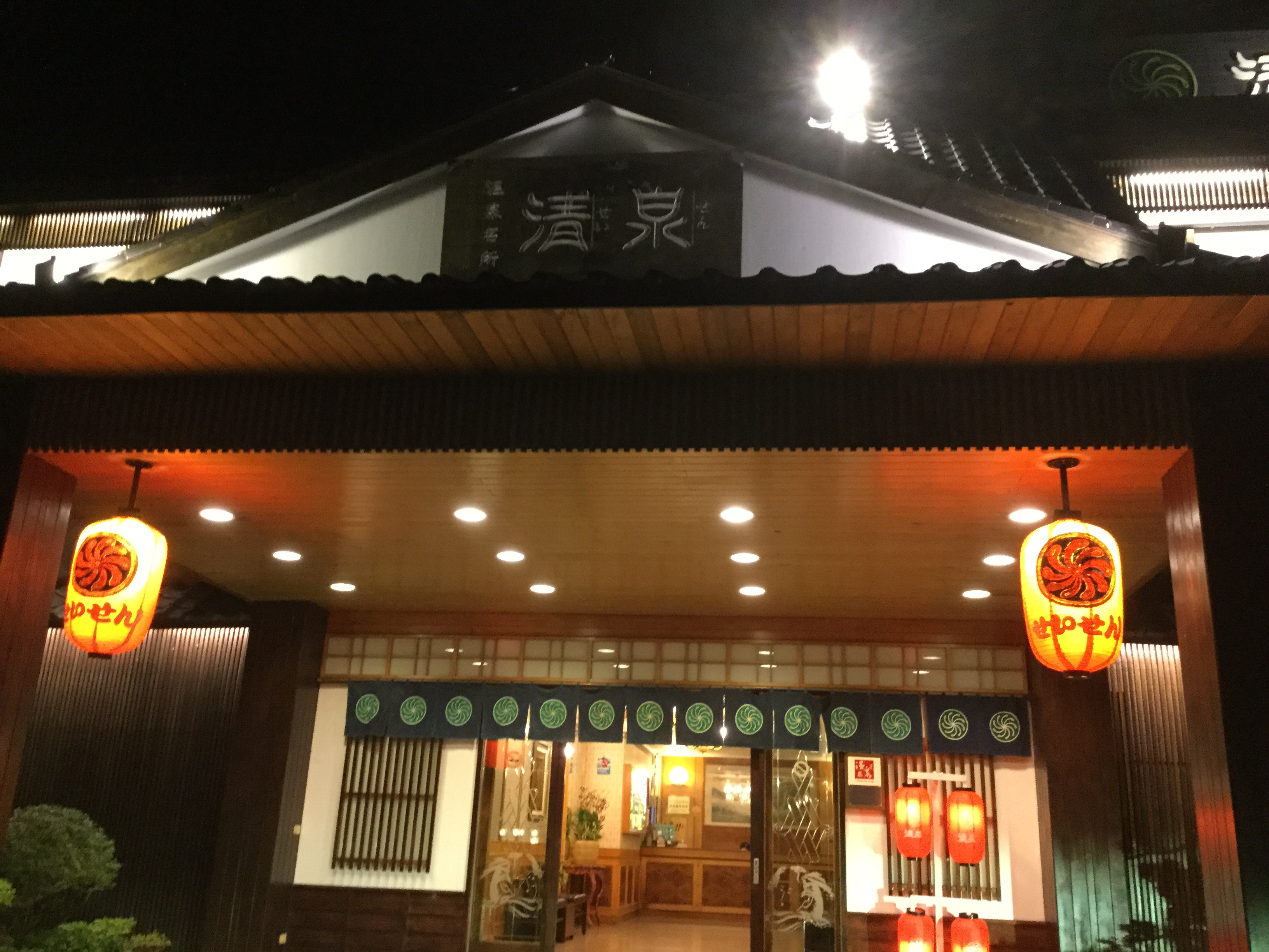 Qingquan Hot Spring Hotel